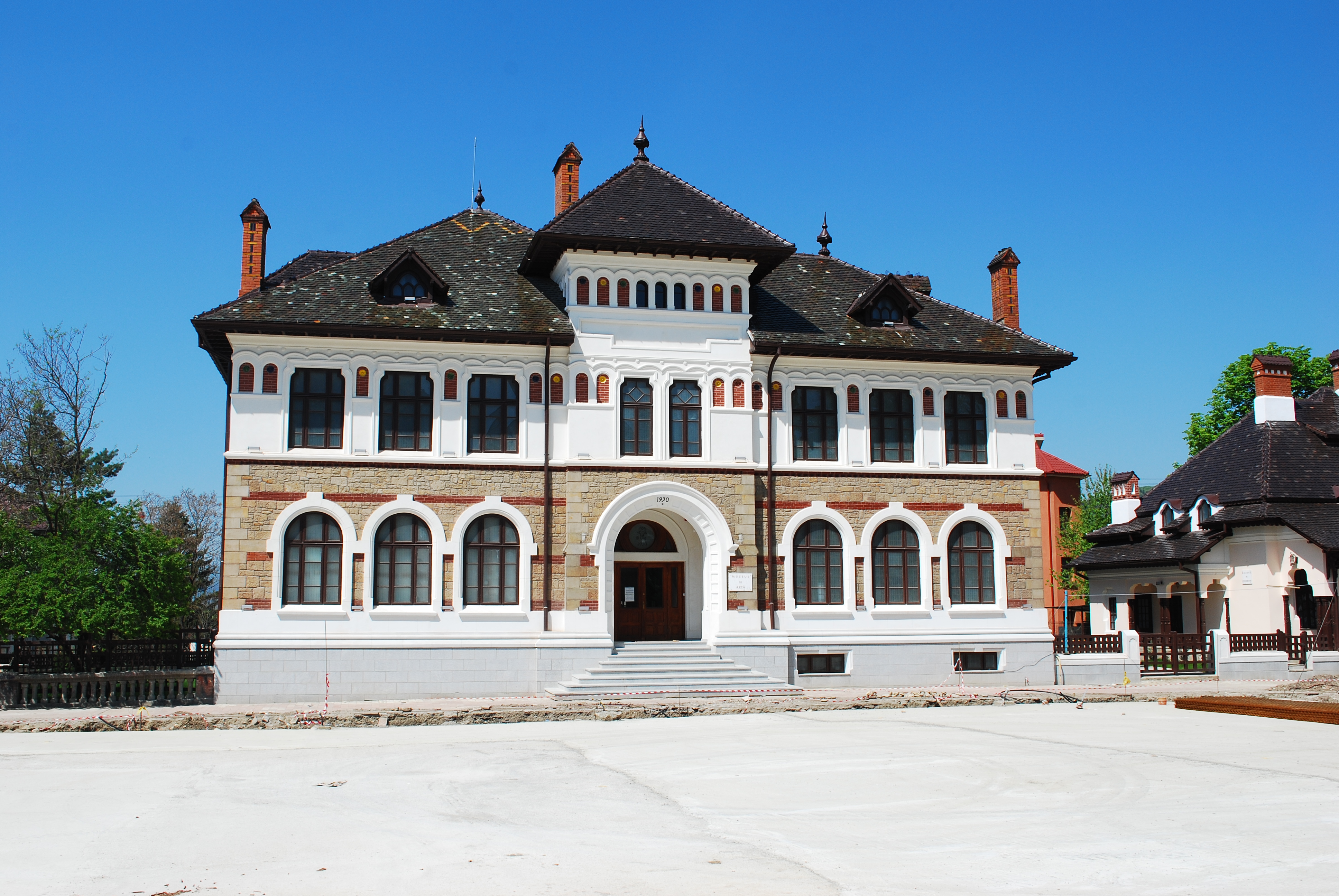 Art museum in Piatra Neamț, RomaniaRomână: Muzeul de artă din Piatra Neamț, România